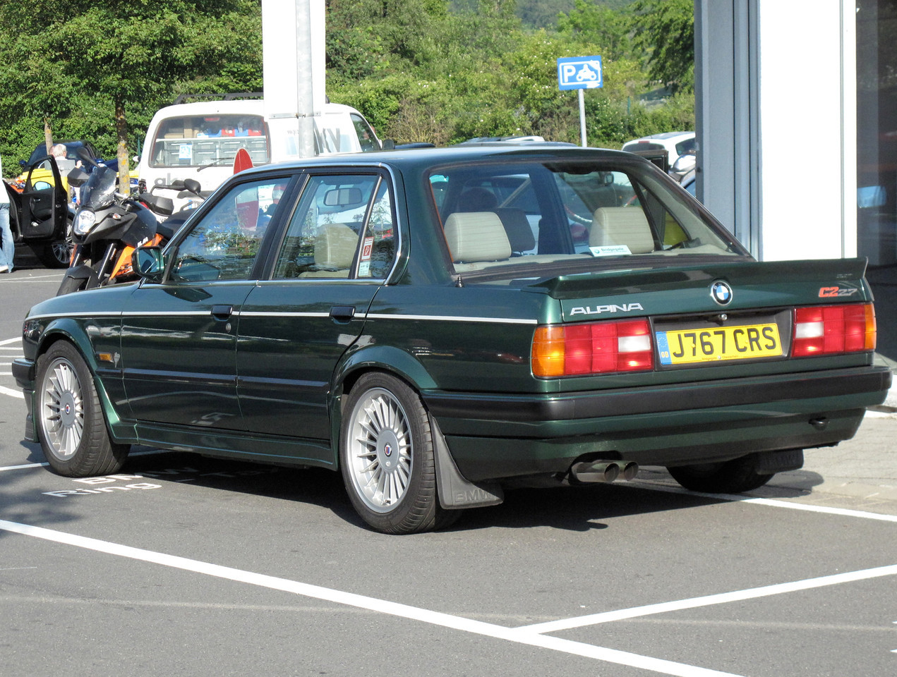 Alpina E30 C2 2.7 iX Allrad at the Nurburgring